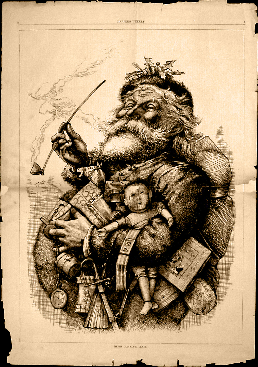 Thomas Nast's most famous drawing, "Merry Old Santa Claus", from the January 1, 1881 edition of Harper's Weekly. Thomas Nast immortalized Santa Claus' current look with an initial illustration in an 1863 issue of Harper's Weekly, as part of a large illustration titled "A Christmas Furlough" in which Nast set aside his regular news and political coverage to do a Santa Claus drawing. The popularity of that image prompted him to create another illustration in 1881.